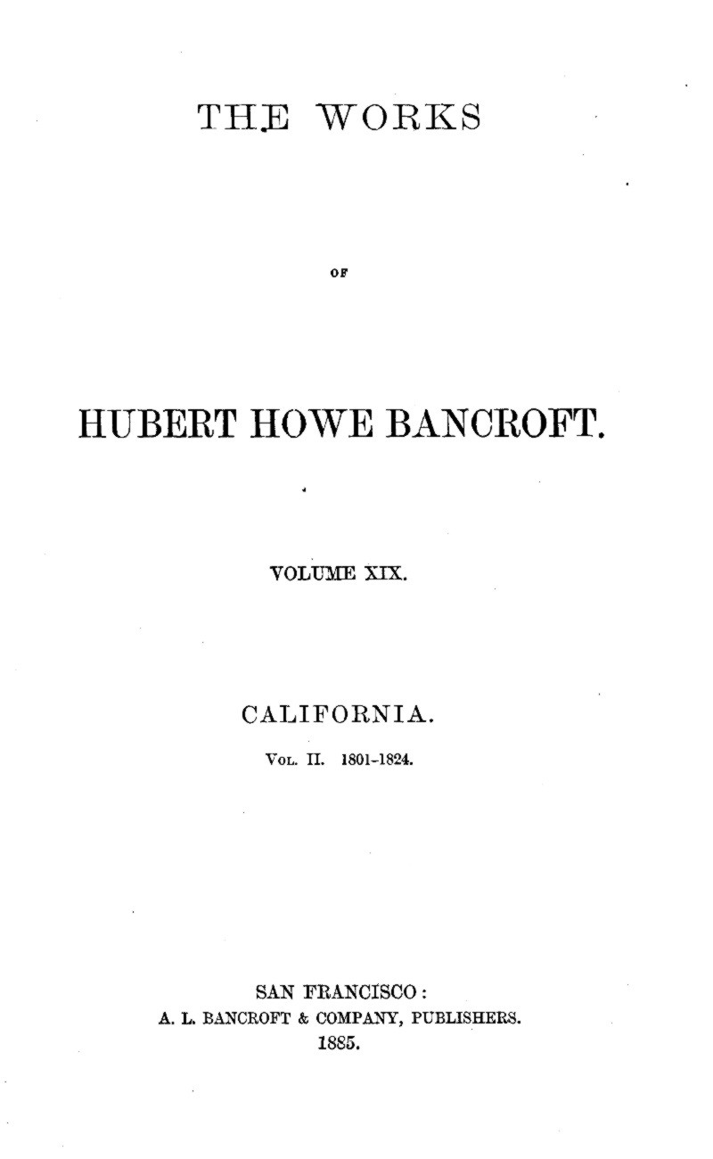 Cover page of "History of California: The Works of Hubert Howe Bancroft". Autor: Hubert Howe Bancroft. Publ. 1886 by "The History Company".